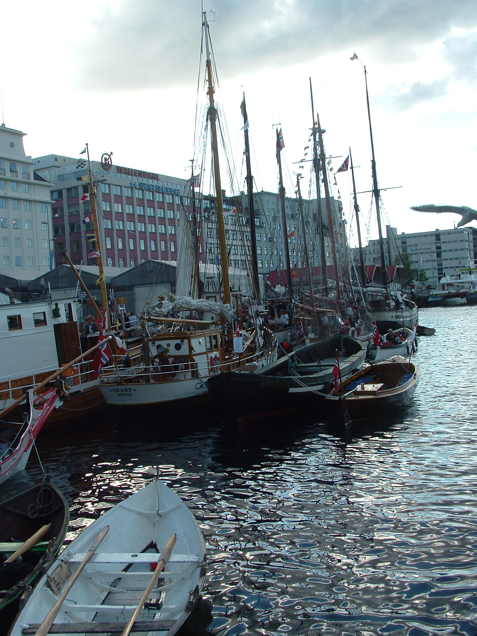 Veteran ships and boats at coastal-cultural weeks, Bergen in august 2008